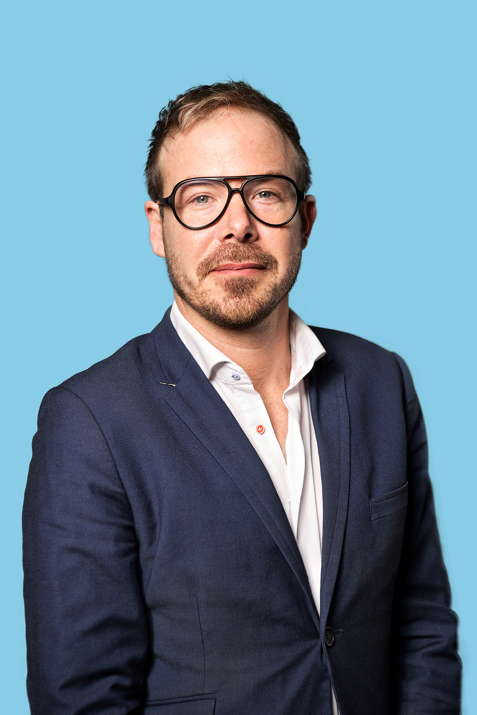 Kandidaat-Kamerlid. Foto: Lex Draijer.